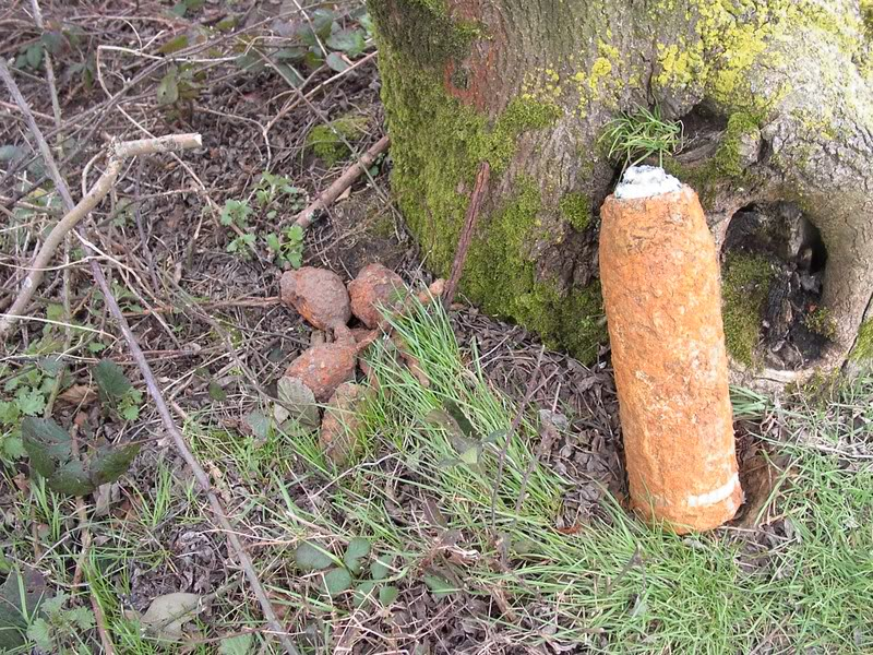 Duds at the R.E. Grave Railway Wood Missing memorial in Zillebeke.